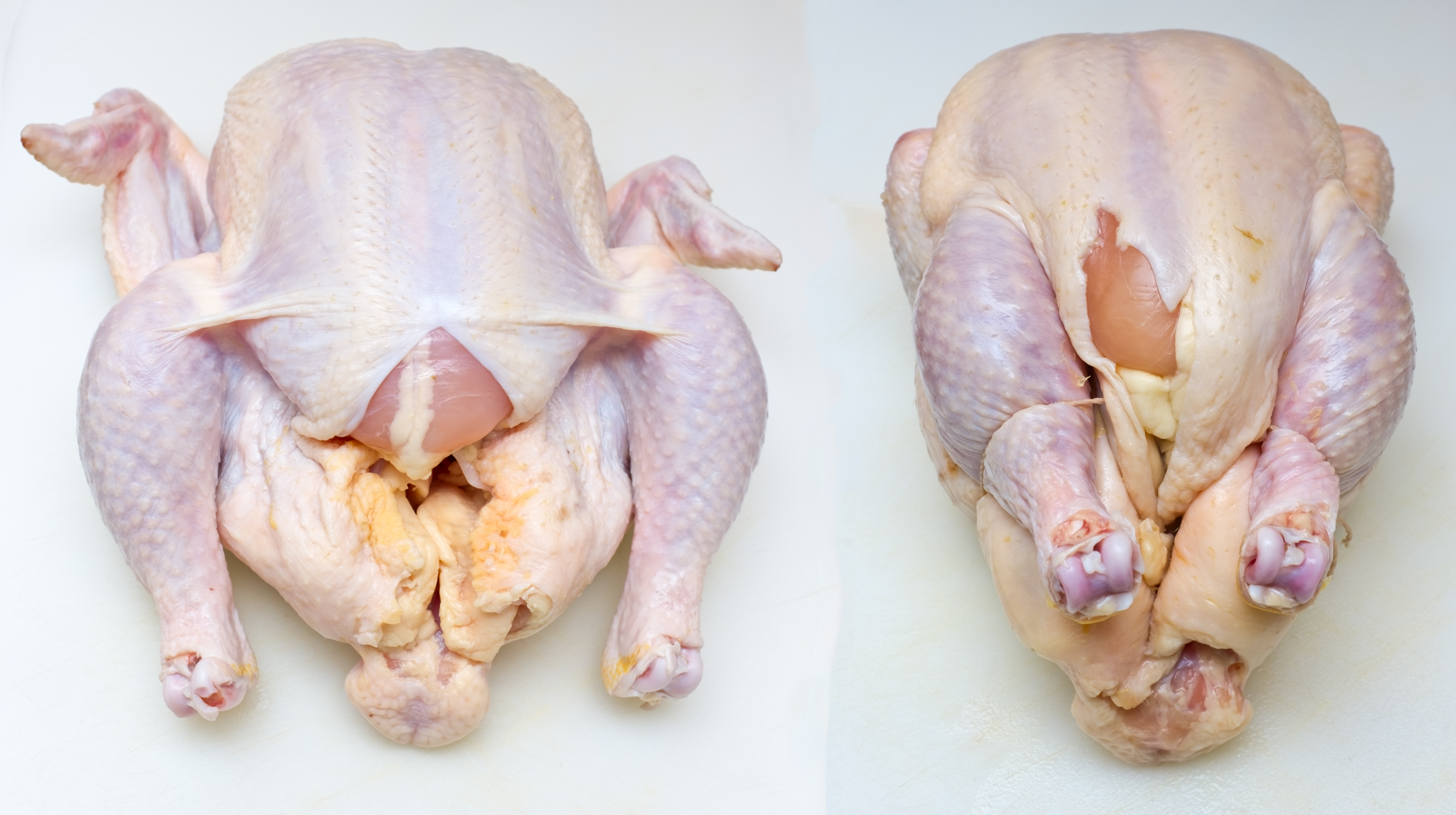 Example of an untrussed (left) and trussed (right) chicken for roasting. Note: chicken was trussed with a trussing needle, and 2 pieces of string, as described (Method 2) on page 221–222 of Jacques Pepin's book La Technique (ISBN 067179020X).